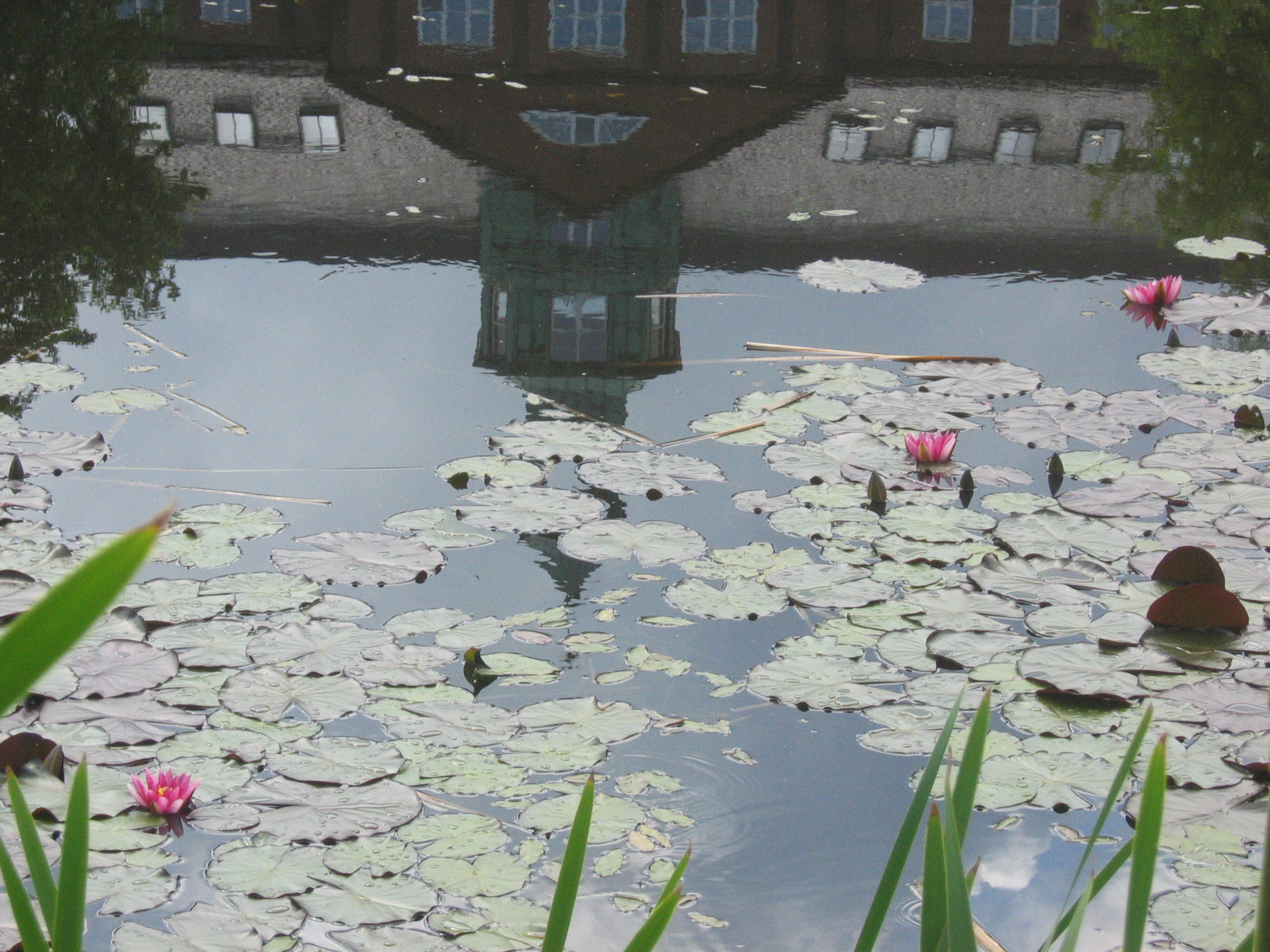 Nymphaea alba (water lily) — the Swedish red variety/cultivar. Blooming in a pond at the Norwegian University of Life Sciences at Ås, south-east of Oslo.